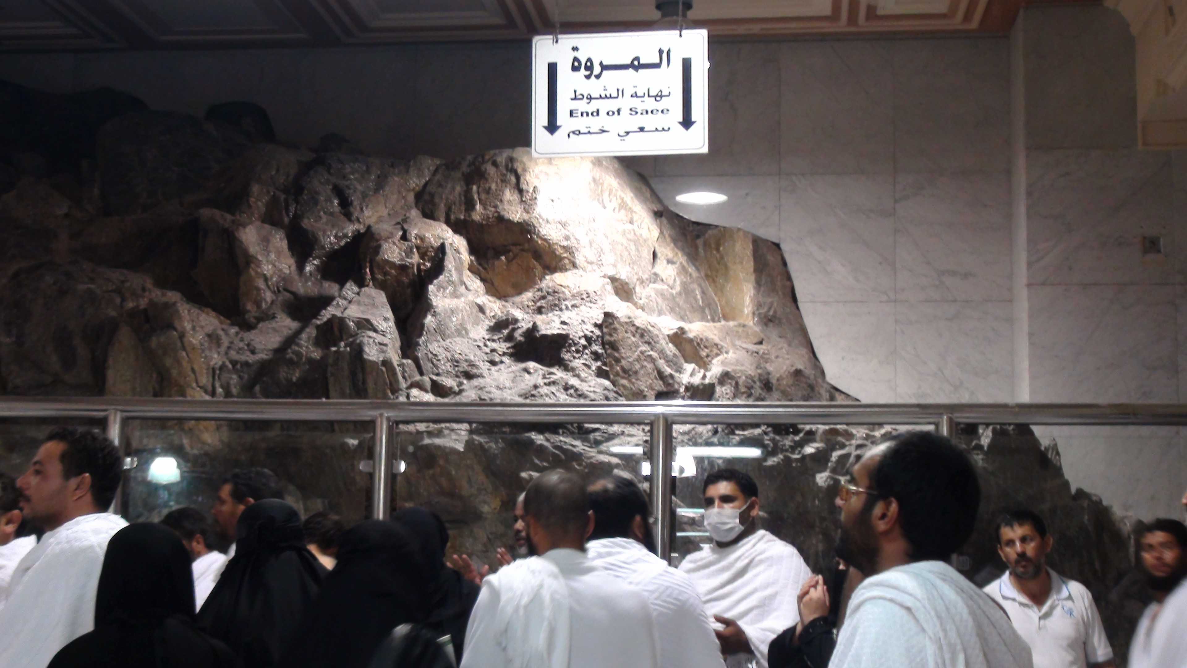 Panel guidance on Mount Al-Marwah exists inside the Grand Mosque in Mecca, It endins AL-Sa'yee